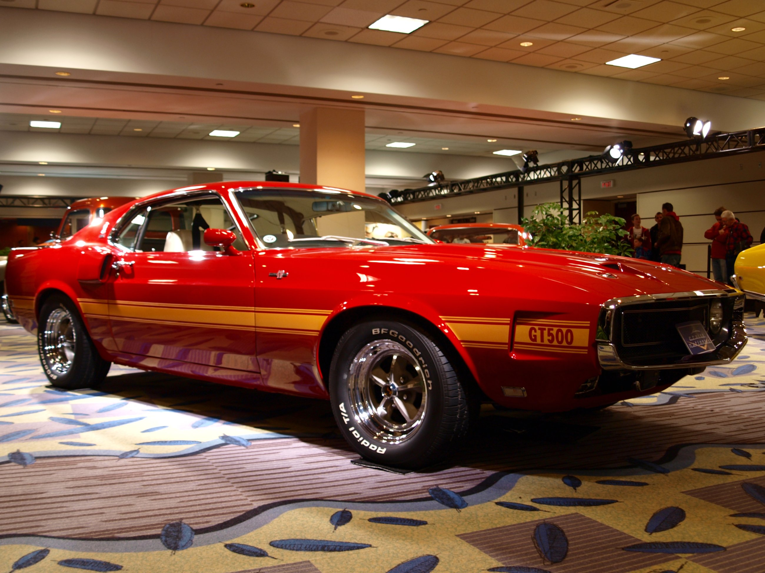 Shelby Mustang GT500